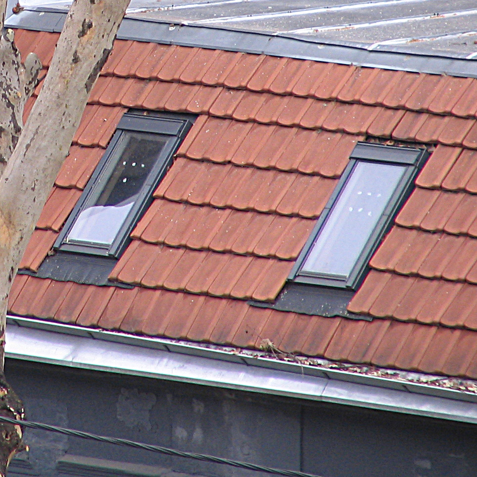 roof windows